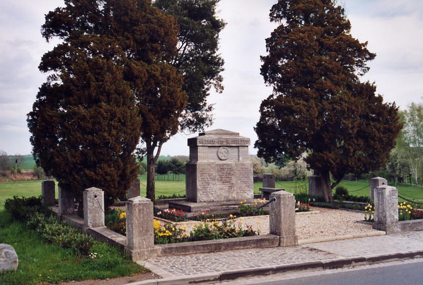 This image shows the memorial place in memory of the mine disaster in Kriebitzsch near Altenburg, Germany on the 28.Mai 1921. A storm flooded the "Agnes & Ida" mine and killed 17 miners. It was the worst disaster in the mining region around Altenburg and Meuselwitz.